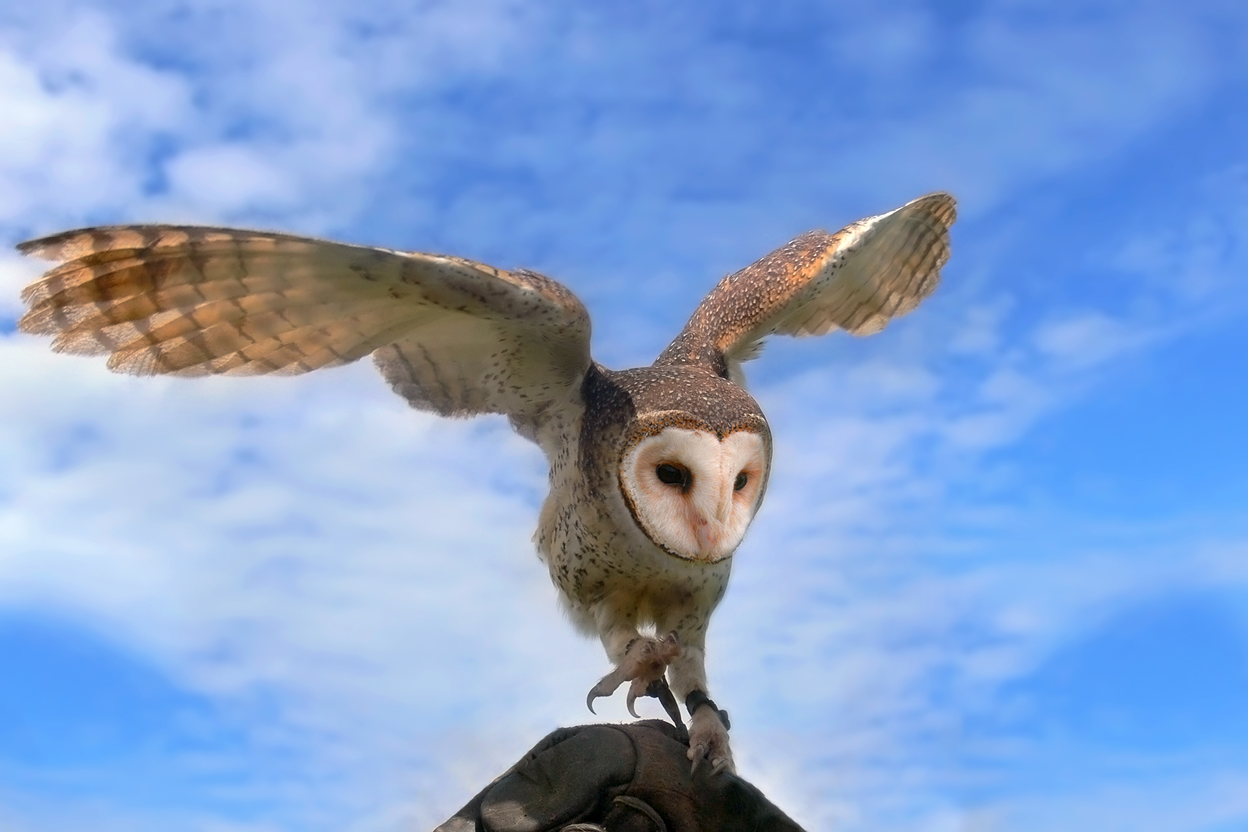 A Masked owl Tyto novaehollandiae , taken at a Traveling Raptor flight display in south-eastern Australia.